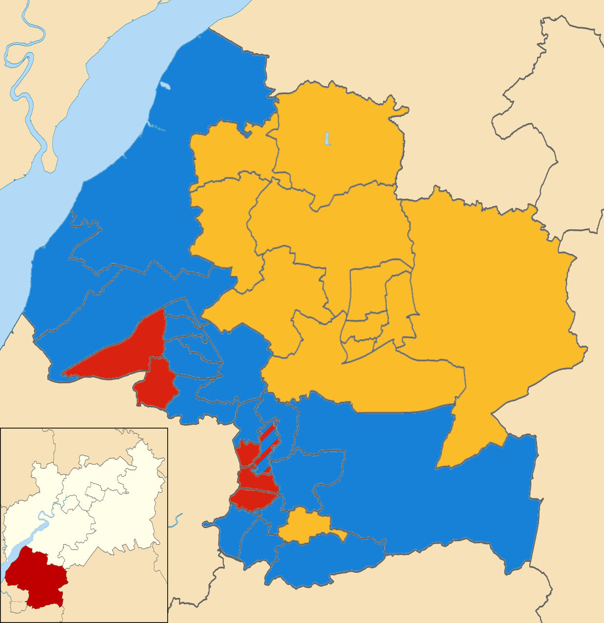 Results of the 2015 local elections in South Gloucestershire Conservative Labour Liberal Democrat